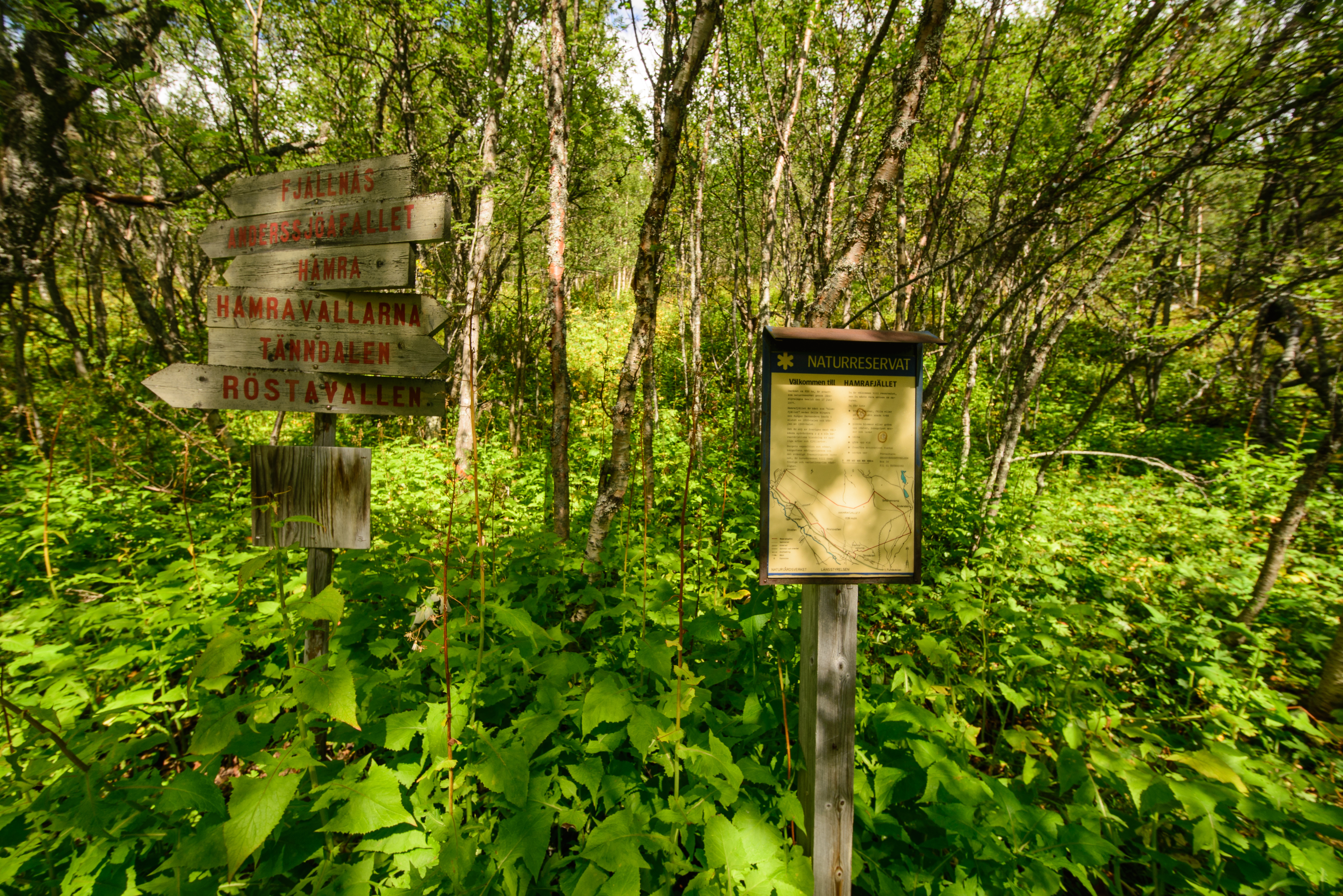 Hamrafjället is a mountain and nature reserve in Härjedalen municipality in Jämtland County, Sweden